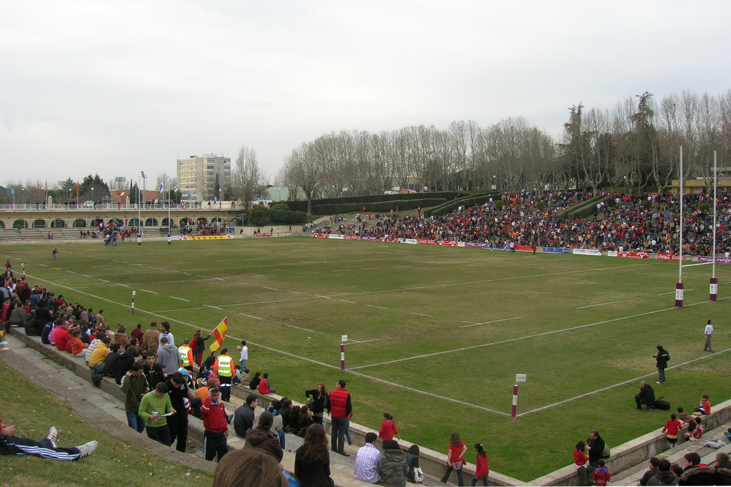 The pitch of Complutense University rugby stadium in Madrid